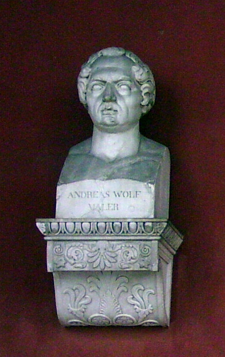 Bust of Andreas Wolf at Ruhmeshalle ("Hall of fame"), München, Germany. Picture taken by myself: Dominik Hundhammer, München, 27 March 2006.